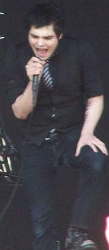 Gerard Way of My Chemical Romance singing in the Big Day Out festival, in Australia, 2007